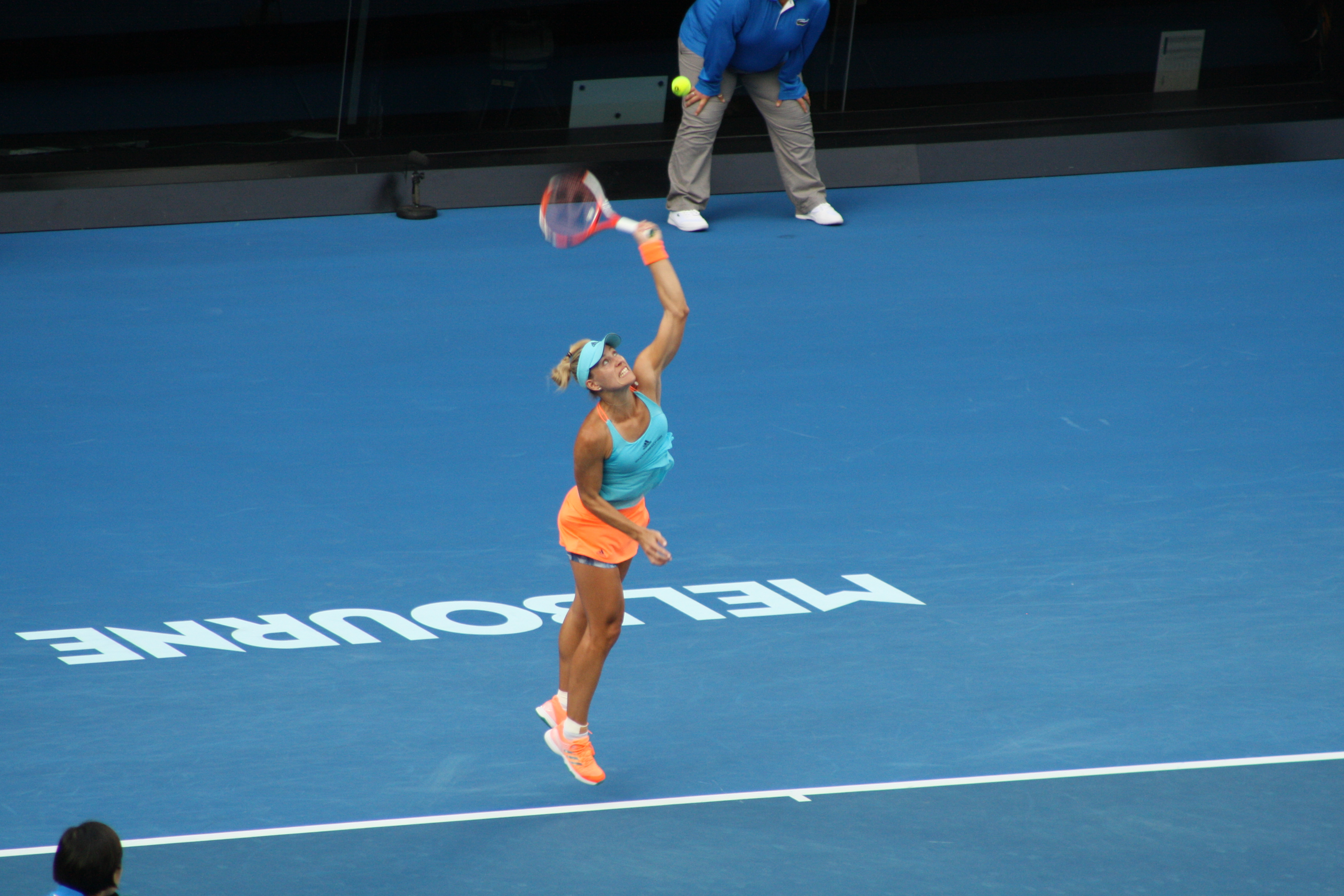 Angelique Kerber, January 2017